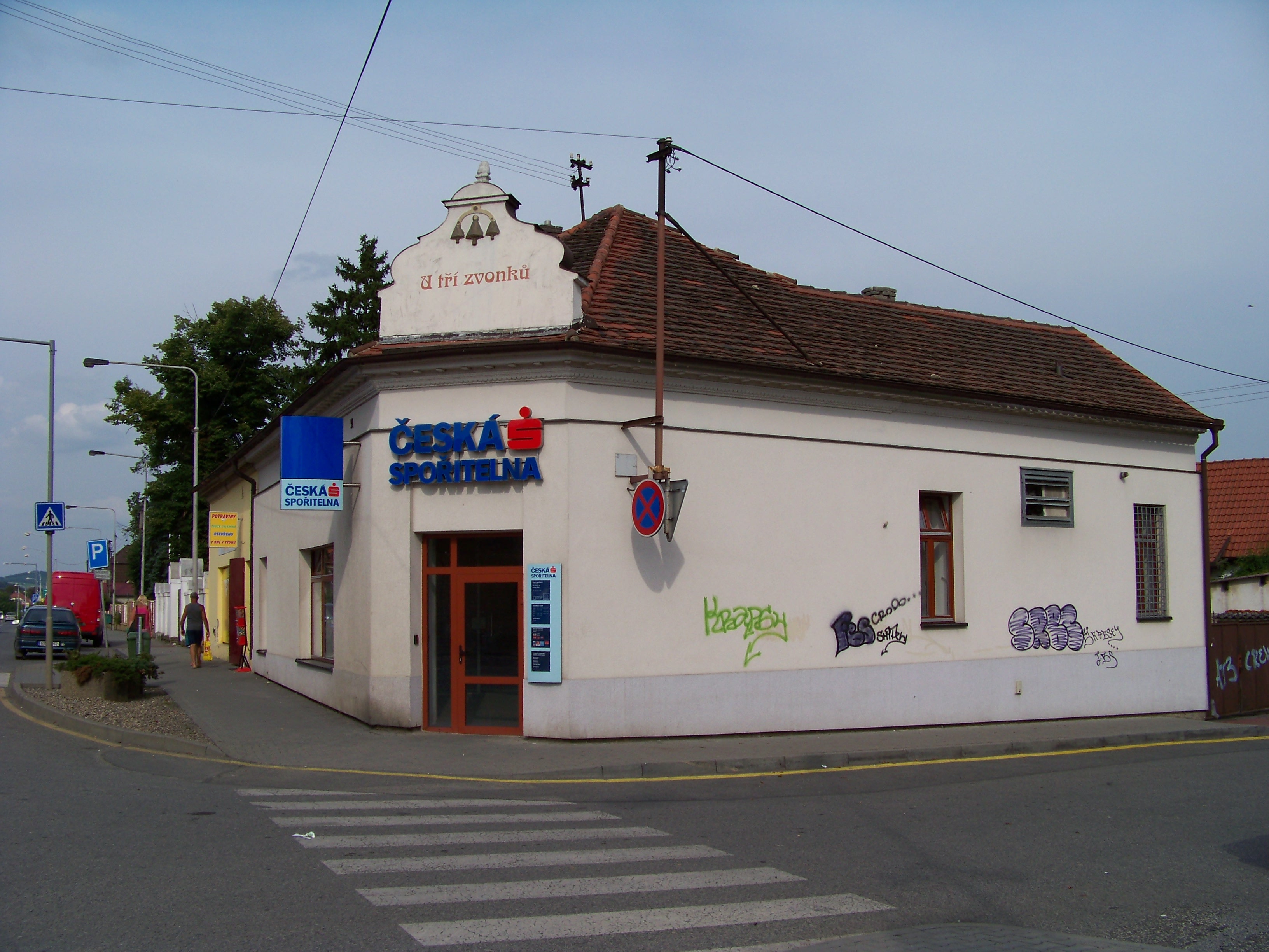 Králův Dvůr-Počaply, Beroun District, Central Bohemian Region, the Czech Republic. A house on the corner of Plzeňská and Fučíkova streets.